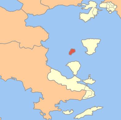 Locator map of Angistri community (Κοινότητα Αγκιστρίου) in Pireas Nomarchia (Νομαρχία Πειραιά) in Greece.